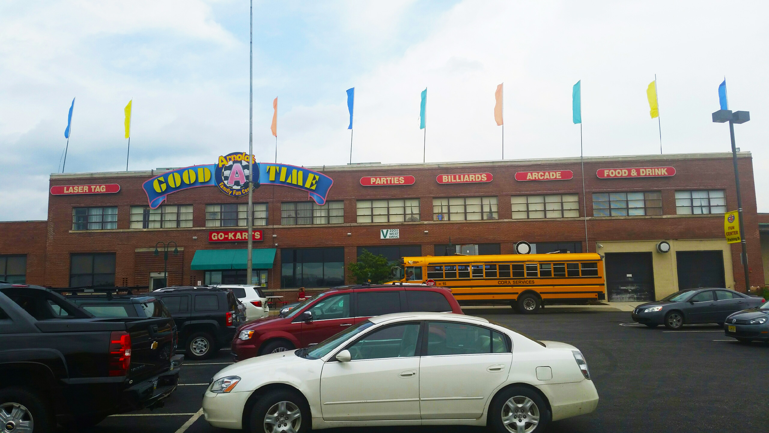 Arnold's Family Fun Center - Oaks, Pa. Over 225,000 square feet of indoor fun.